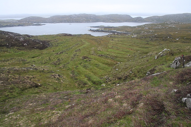 Great Bernera, Outer Hebrides, Scotland. Lazy Beds near Airigh Aird Lazy beds are small plots of land, where the soil has been piled into long, narrow, raised mounds. These beds were used to grow a range of vegetables or crops, especially potatoes. They were often used in areas with shallow or poorly drained soil, as they provided a good depth of soil with good drainage.